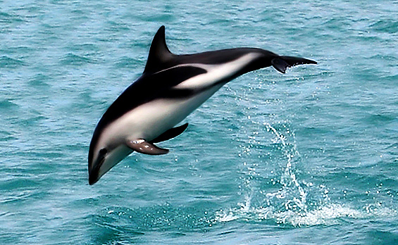 A wild dusky dolphin named "Nox".